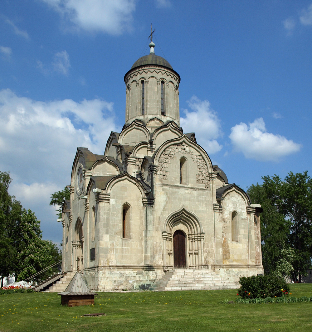 Andronikov Monastery, Moscow. Сathedral of Saviour, early 15th century.